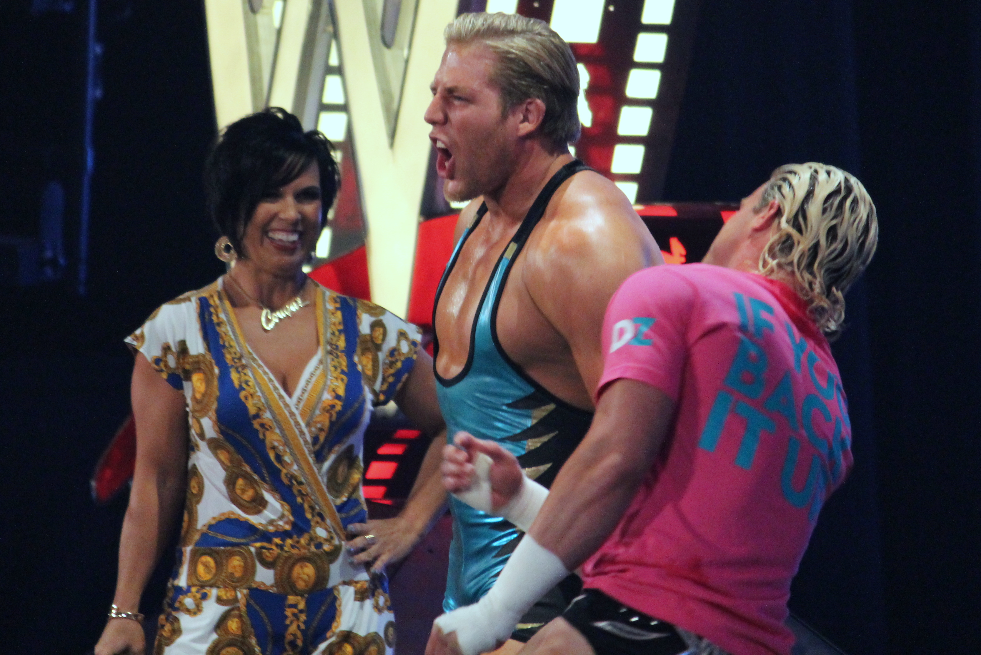 Vickie Guerrero (left) with Jack Swagger and Dolph Ziggler in May 2012. Cropped from original.